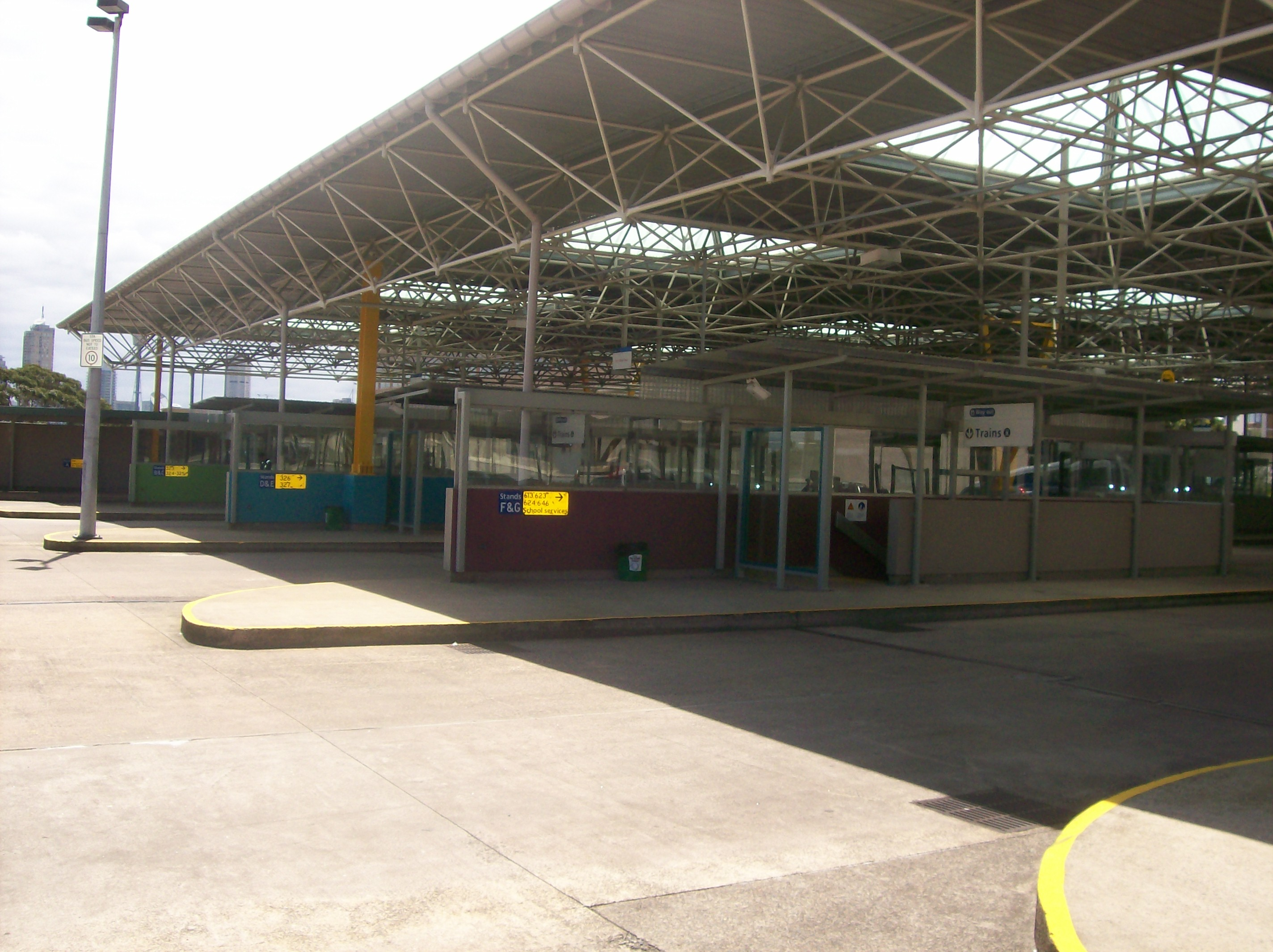 Edgecliff railway station bus terminal 2